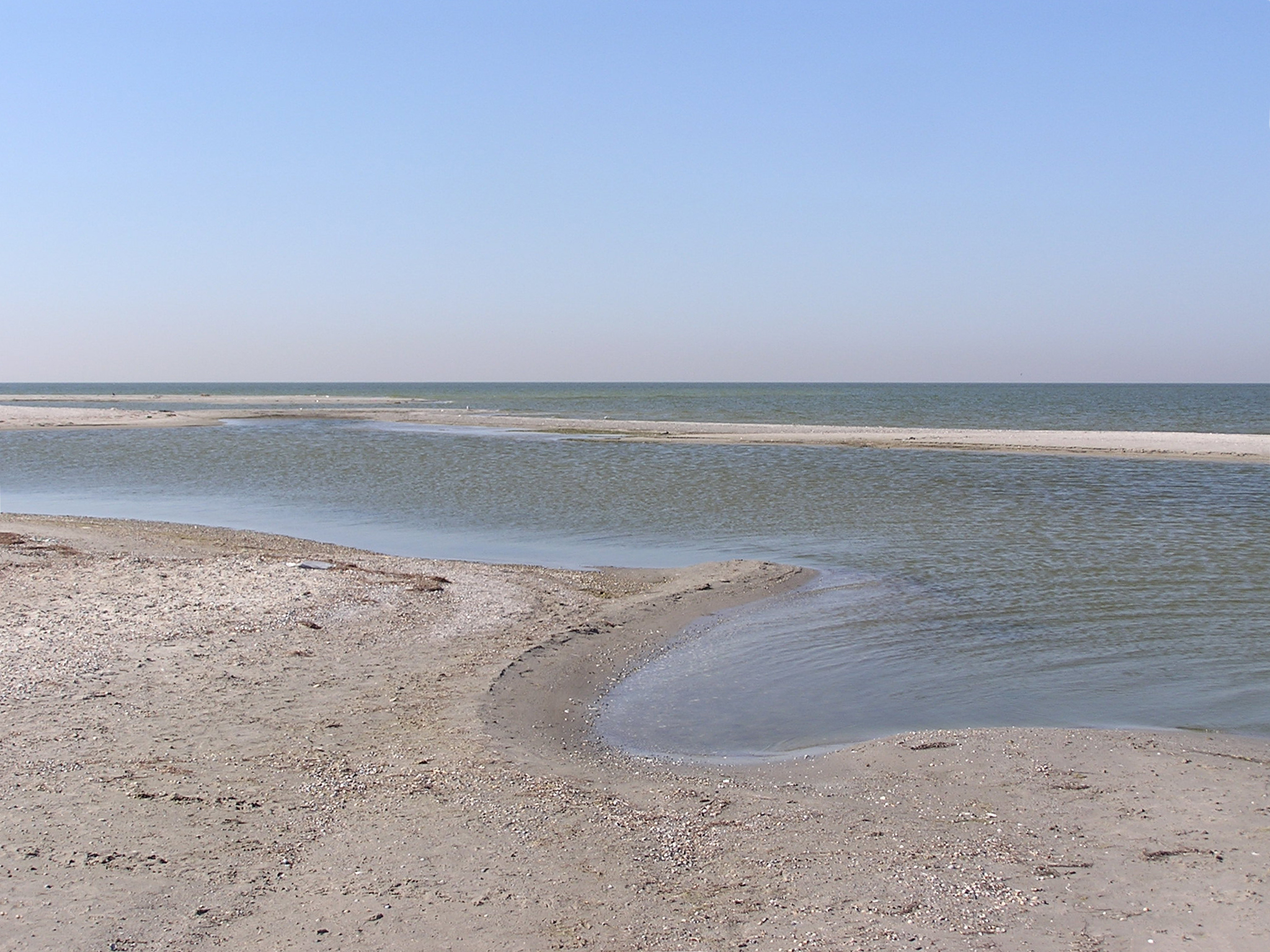 Alluvial sand banks on Belosarayskoy Spit